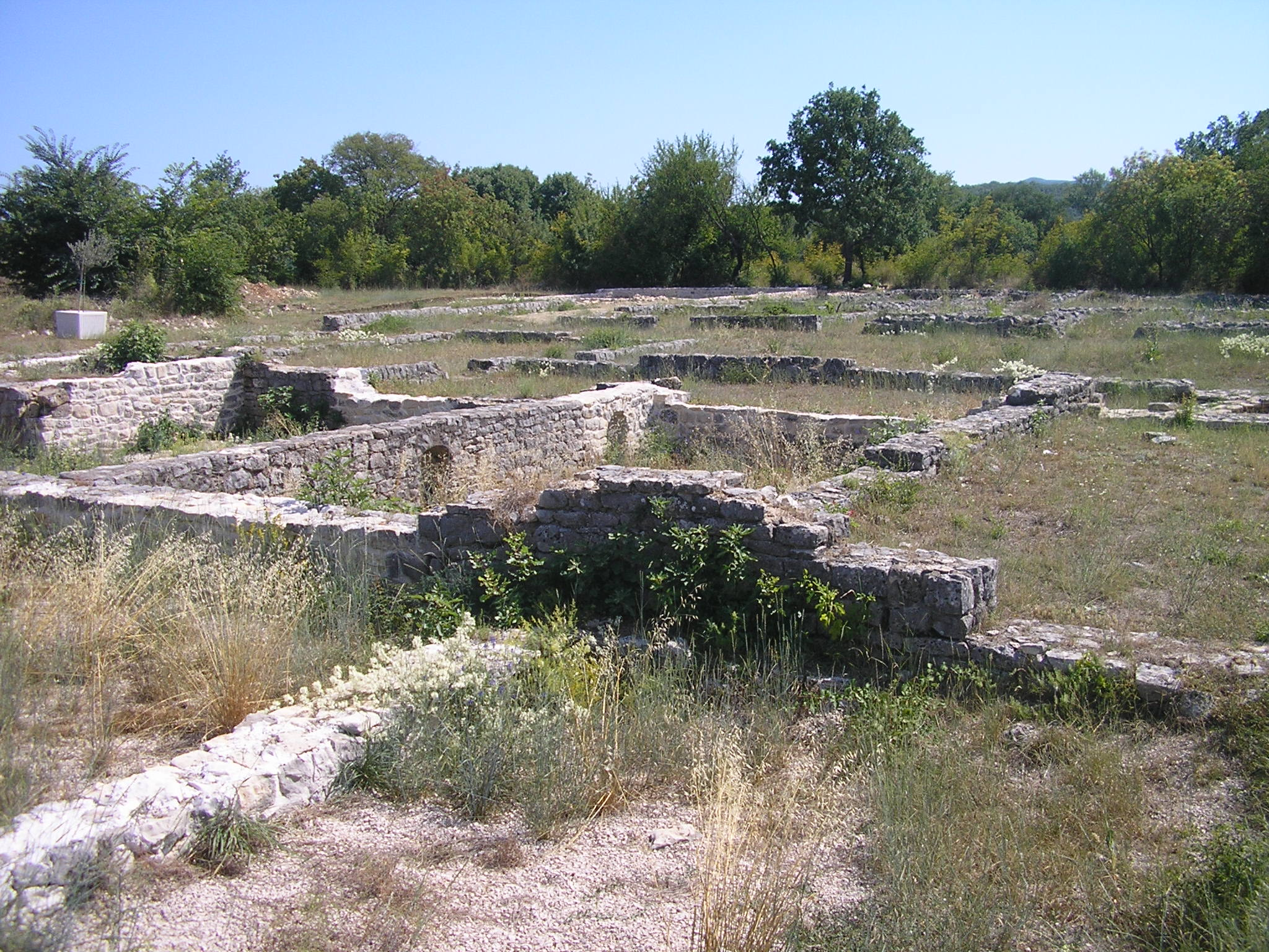 Roman military camp in Humac, Ljubuški